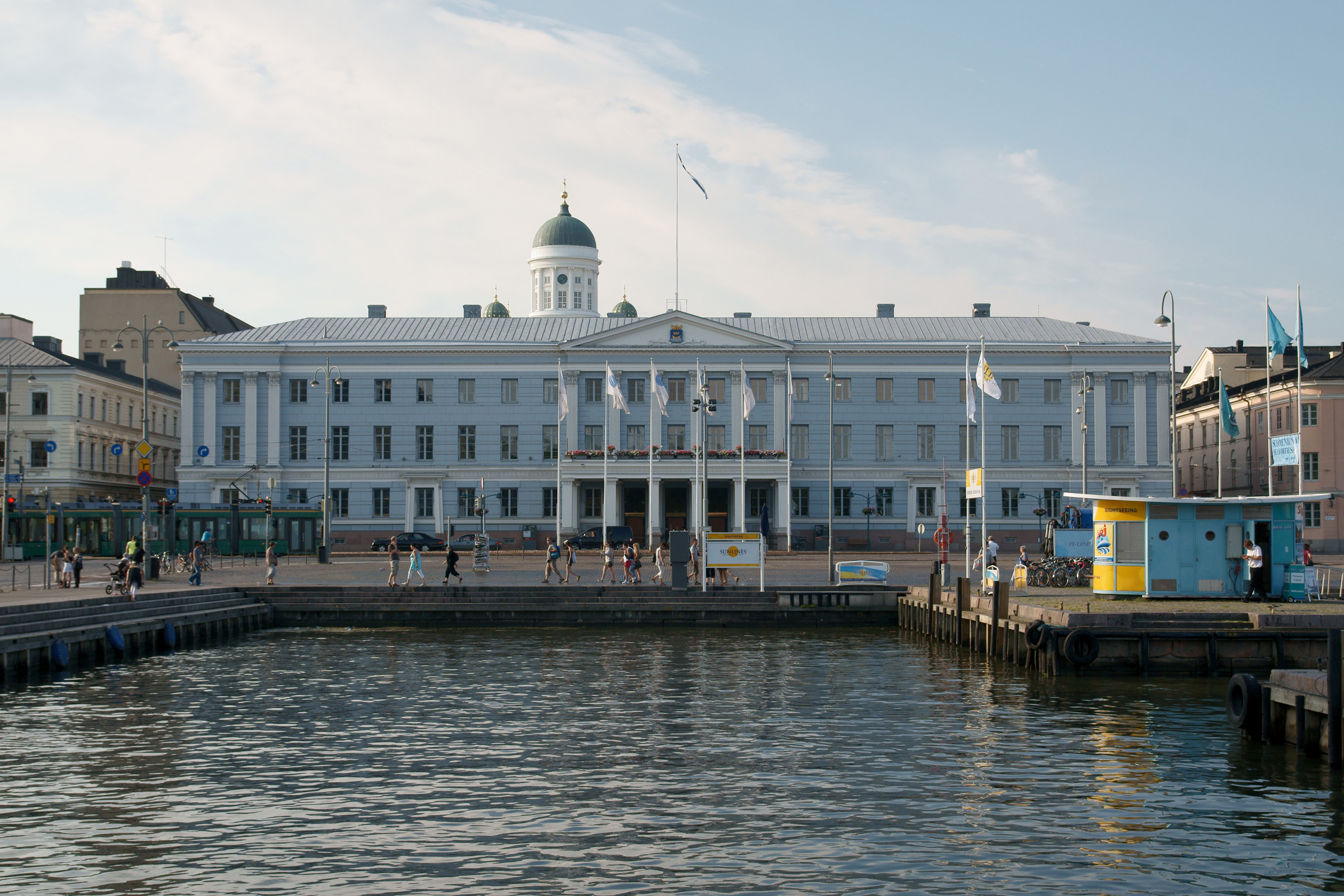 Helsinki City Hall, Pohjoisesplanadi 11–13, Helsinki, Finland. Built 1833. Architect: Carl Ludvig Engel.